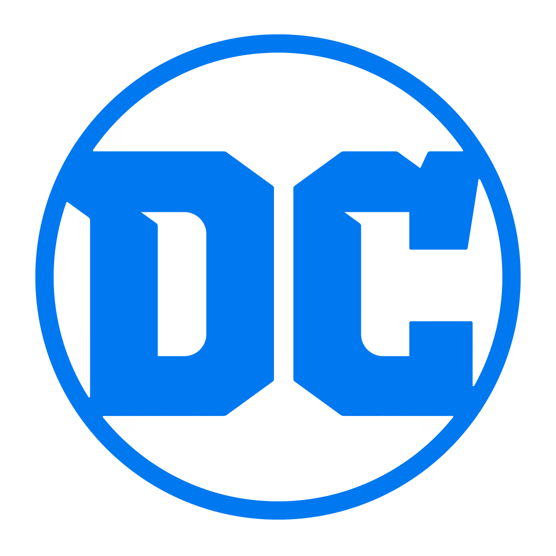 DC Comics logo, starting May 2016.